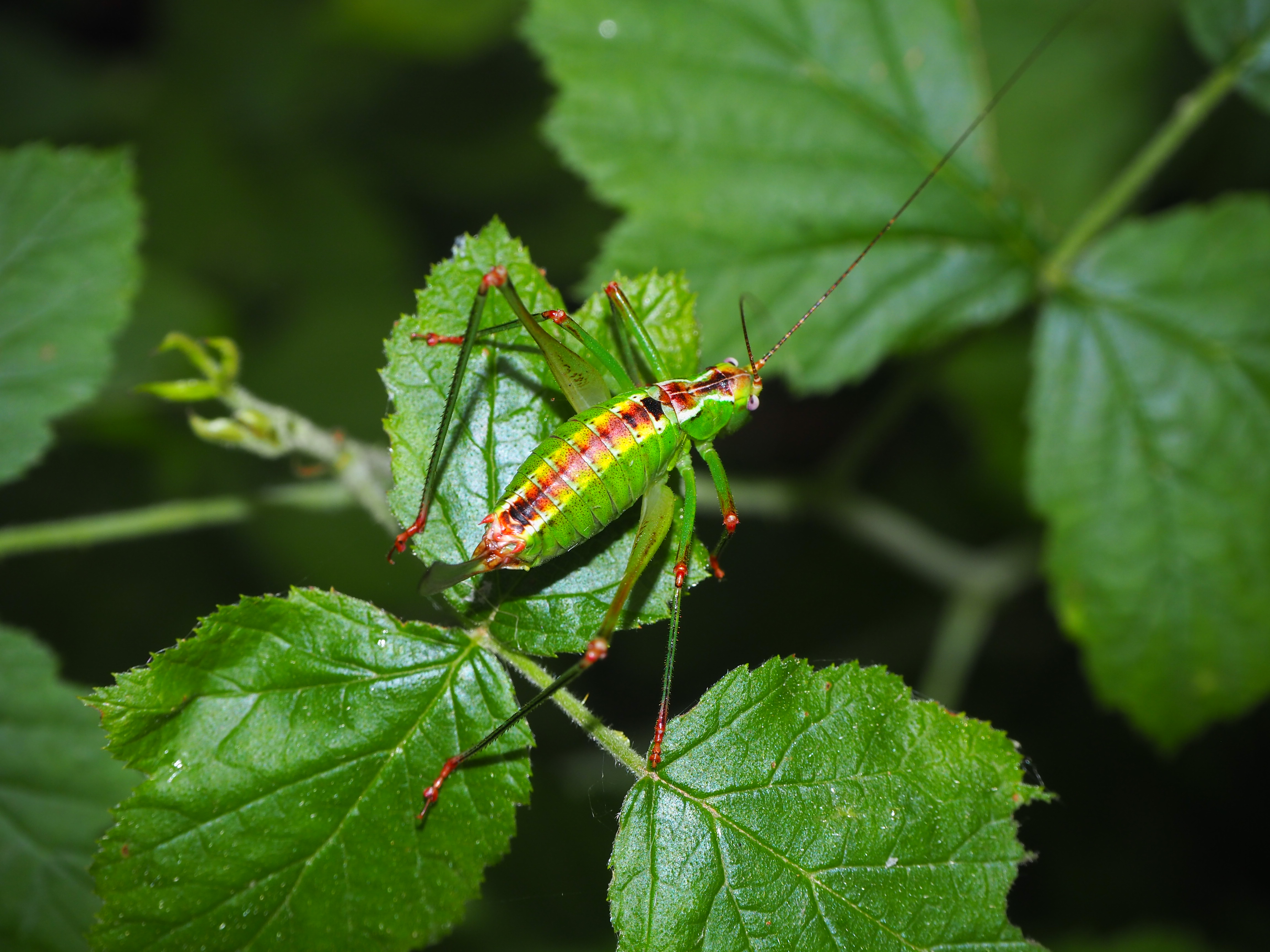 Andreiniimon nuptialis from Bosco di Porporana